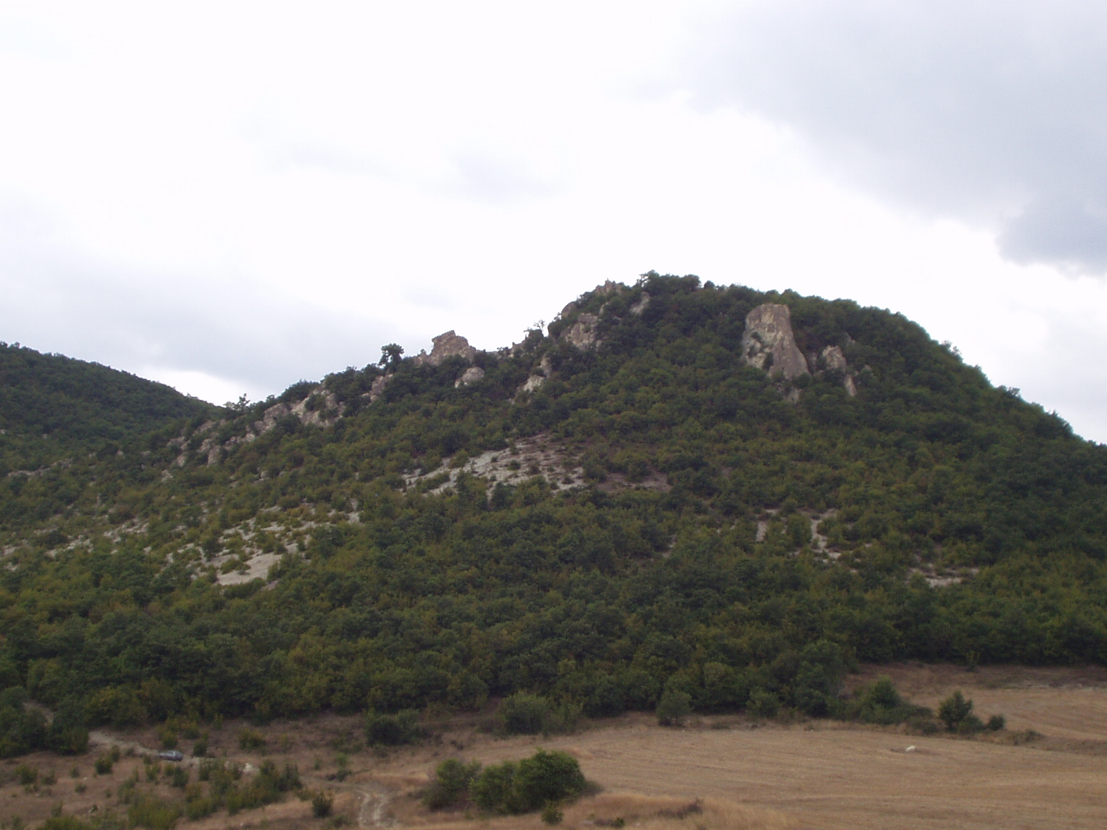 Връх Перперикон, лято 2004, the hill of Perperikon in the Summer of 2004